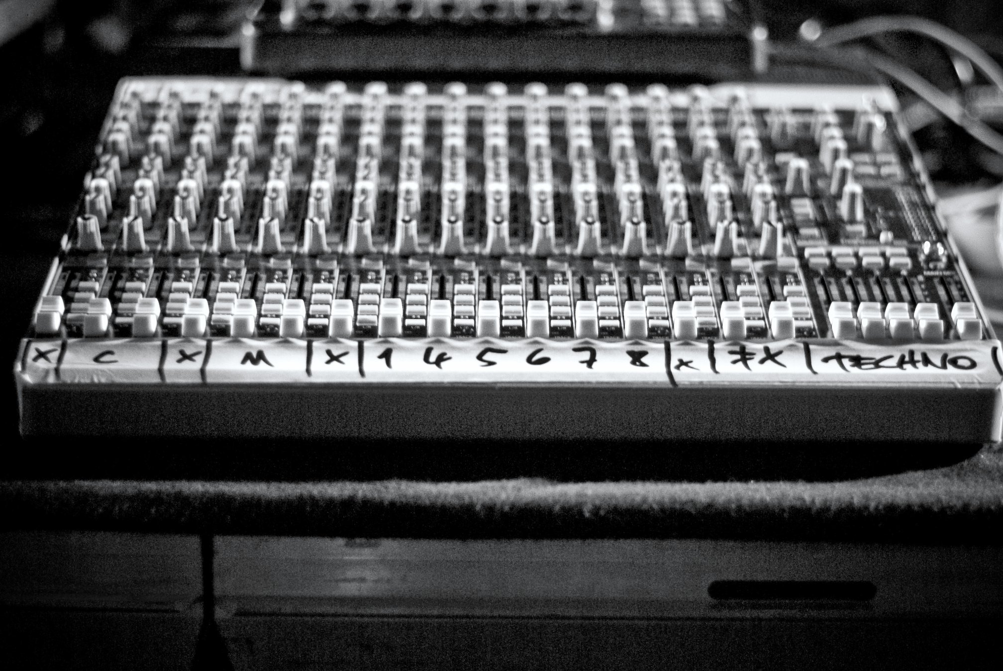 Paul Kalkbrenners Techno Tool 1 Mackie 1604 This is the Mixer of Paul Kalkbrenner while his Performance at the Gasmaschinenzentrale, Unterwellenborn. A Mackie 1604.